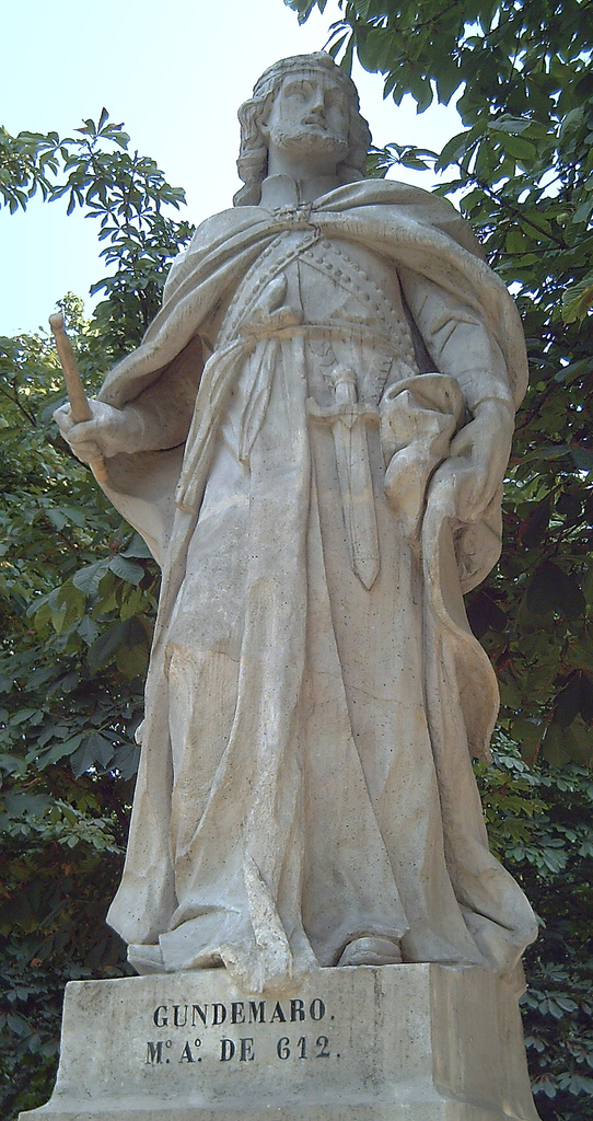 Statue of Visigoth king Gundemar († 612) at the Paseo de la Argentina (a walk) in the Retiro Park (Jardines del Buen Retiro), in Madrid (Spain). Sculpted in white stone by Pedro Lázaro between 1750 and 1753.